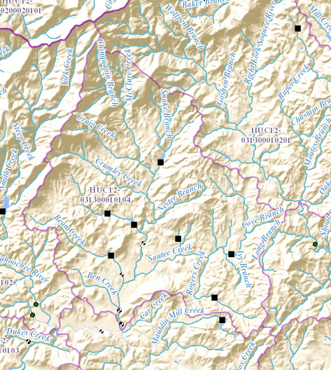 HUC 031300010104 - Chickamauga Creek bisecting its sub-watershed from north to south, and flowing into the Chattahoochee River at the sub-watersheds southernmost point